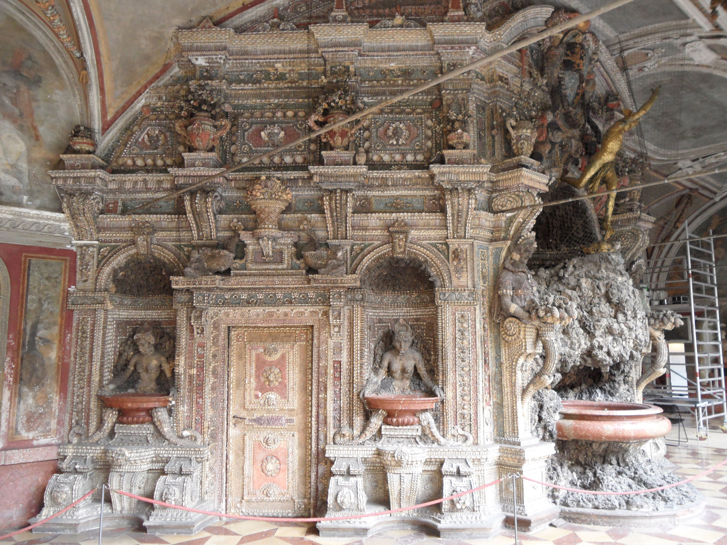 Residence in Munich